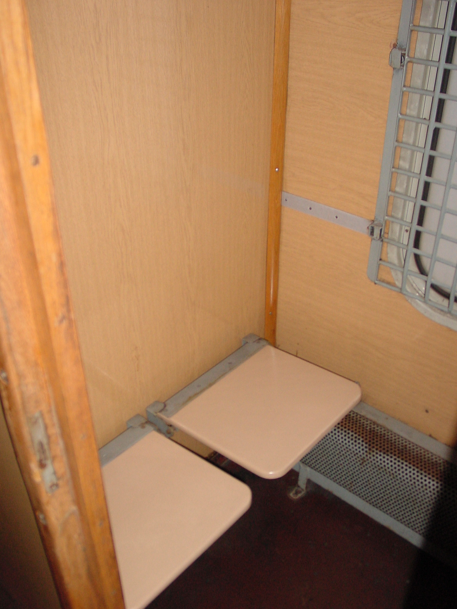 Prison cell inside the prisoner transport wagon.